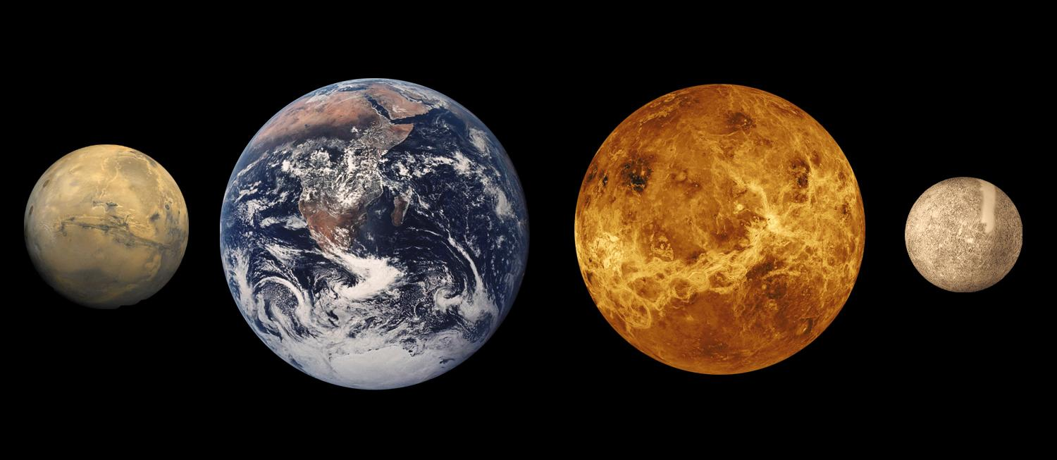 This diagram shows the approximate relative sizes of the terrestrial planets, from right to left: Mercury, Venus, Earth and Mars. Distances are not to scale. A terrestrial planet is a planet that is primarily composed of silicate rocks. The term is derived from the Latin word for Earth, "Terra", so an alternate definition would be that these are planets which are, in some notable fashion, "Earth-like". Terrestrial planets are substantially different from gas giants, which might not have solid surfaces and are composed mostly of some combination of hydrogen, helium, and water existing in various physical states. Terrestrial planets all have roughly the same structure: a central metallic core, mostly iron, with a surrounding silicate mantle. Terrestrial planets have canyons, craters, mountains, volcanoes and secondary atmospheres.